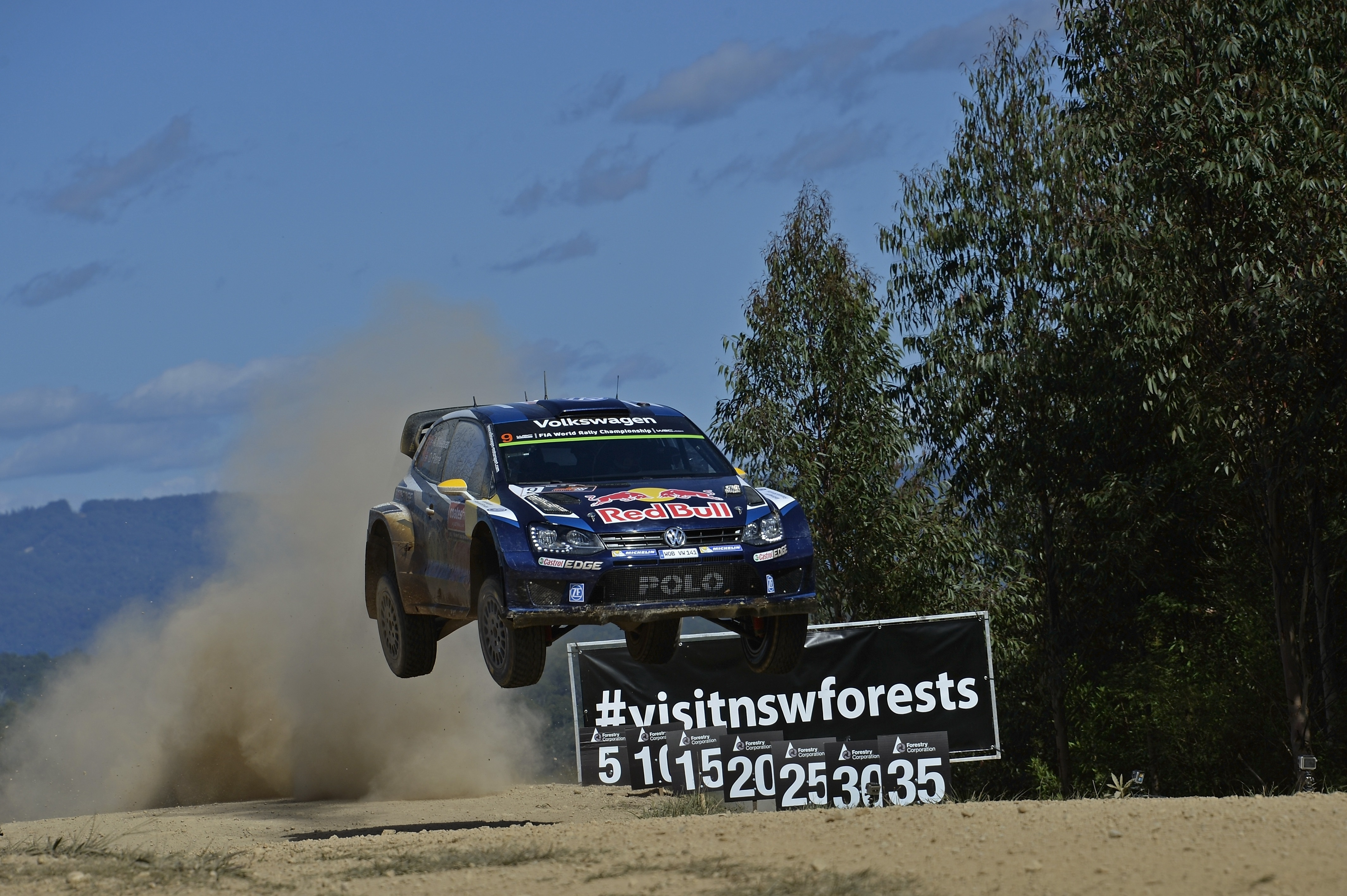 Andreas Mikkelsen and co-driver Ola Fløene in their Volkswagen Polo R WRC at the 2015 Rally Australia.